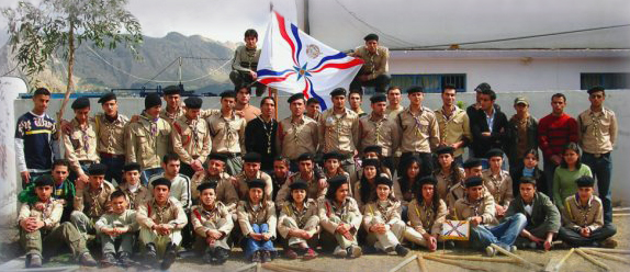 Hamorabi Scouts is an Assyrian Scout movement in Iraq